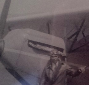 José Costa in front of his American Eagle A1 NC834W